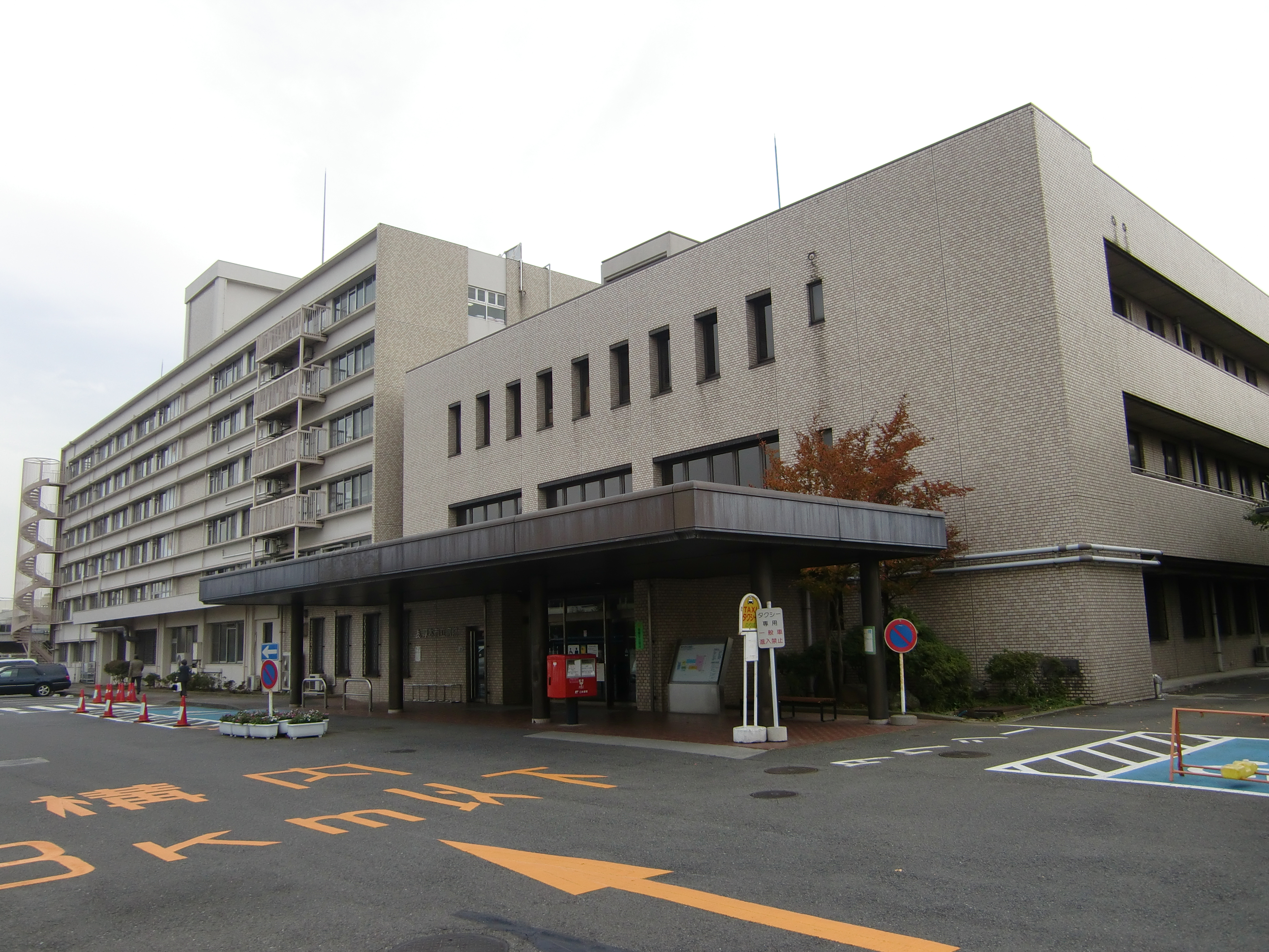 Atsugi Municipal Hospital